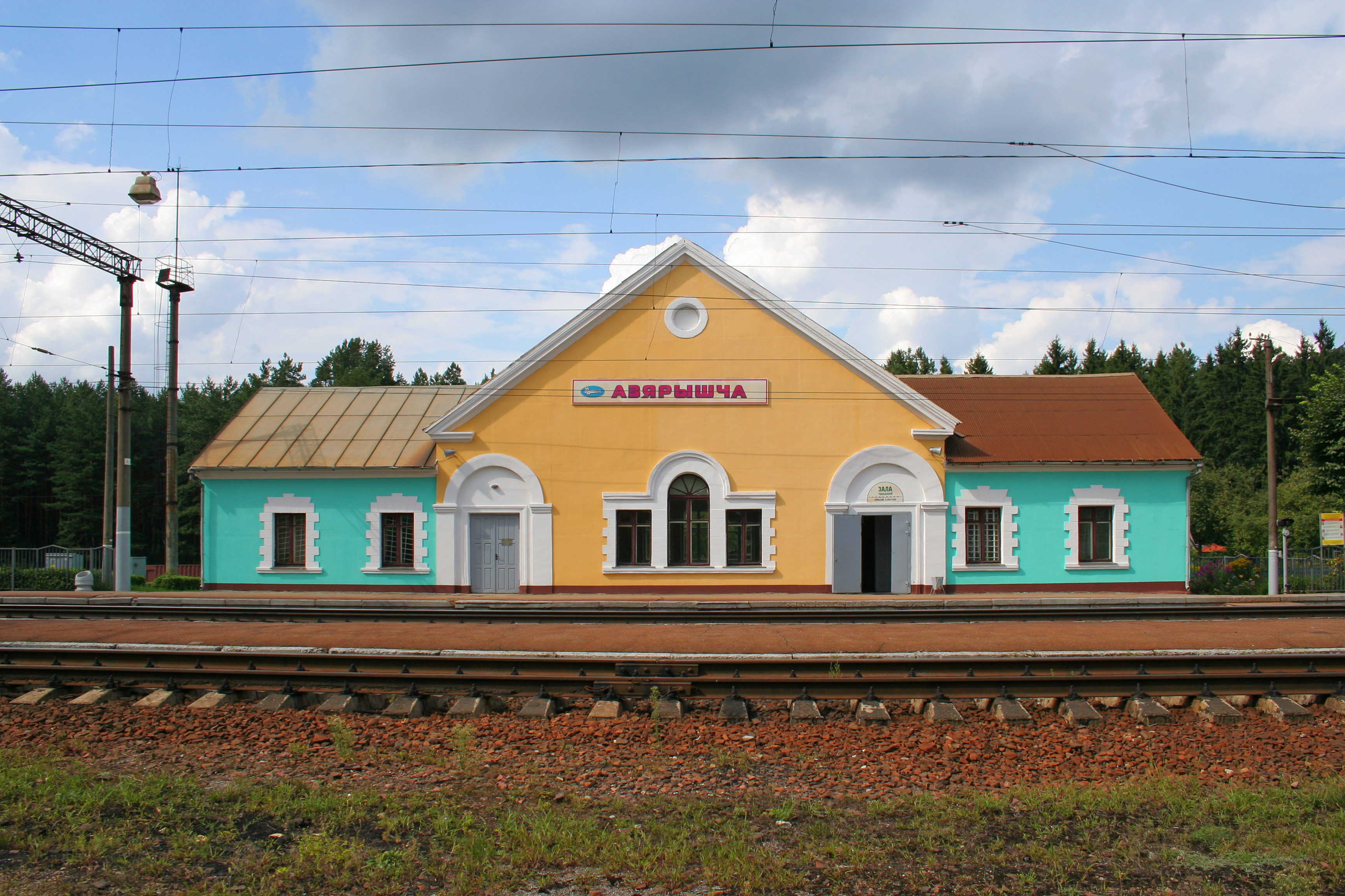 Views of Minsk (Belarus). Rail platform Ozerishche.